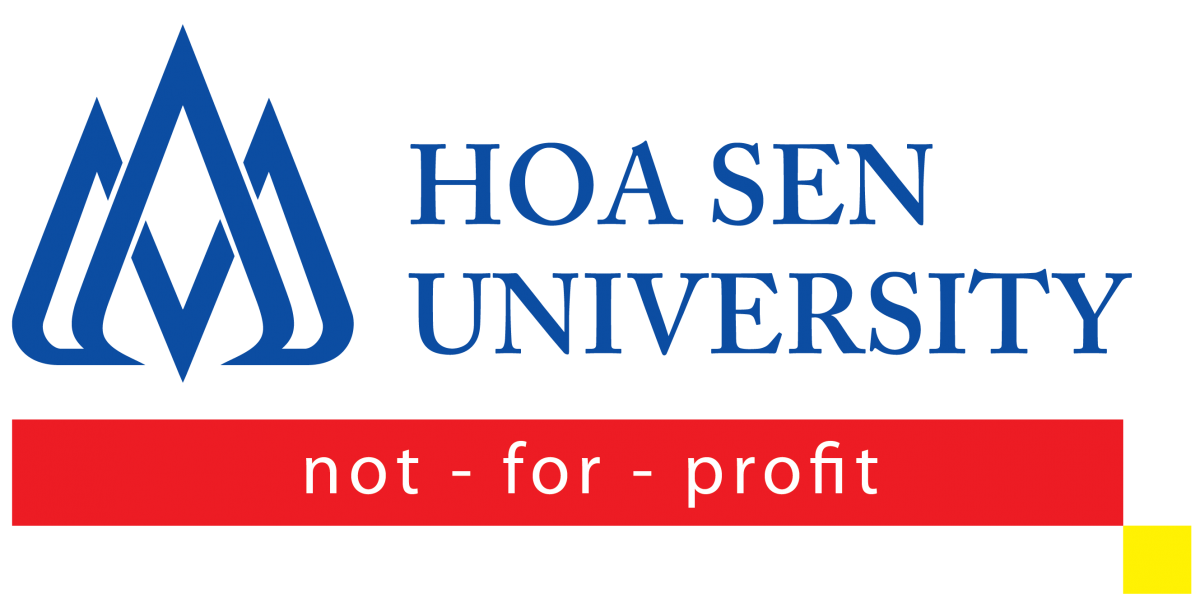 Logo hoa sen not for profit